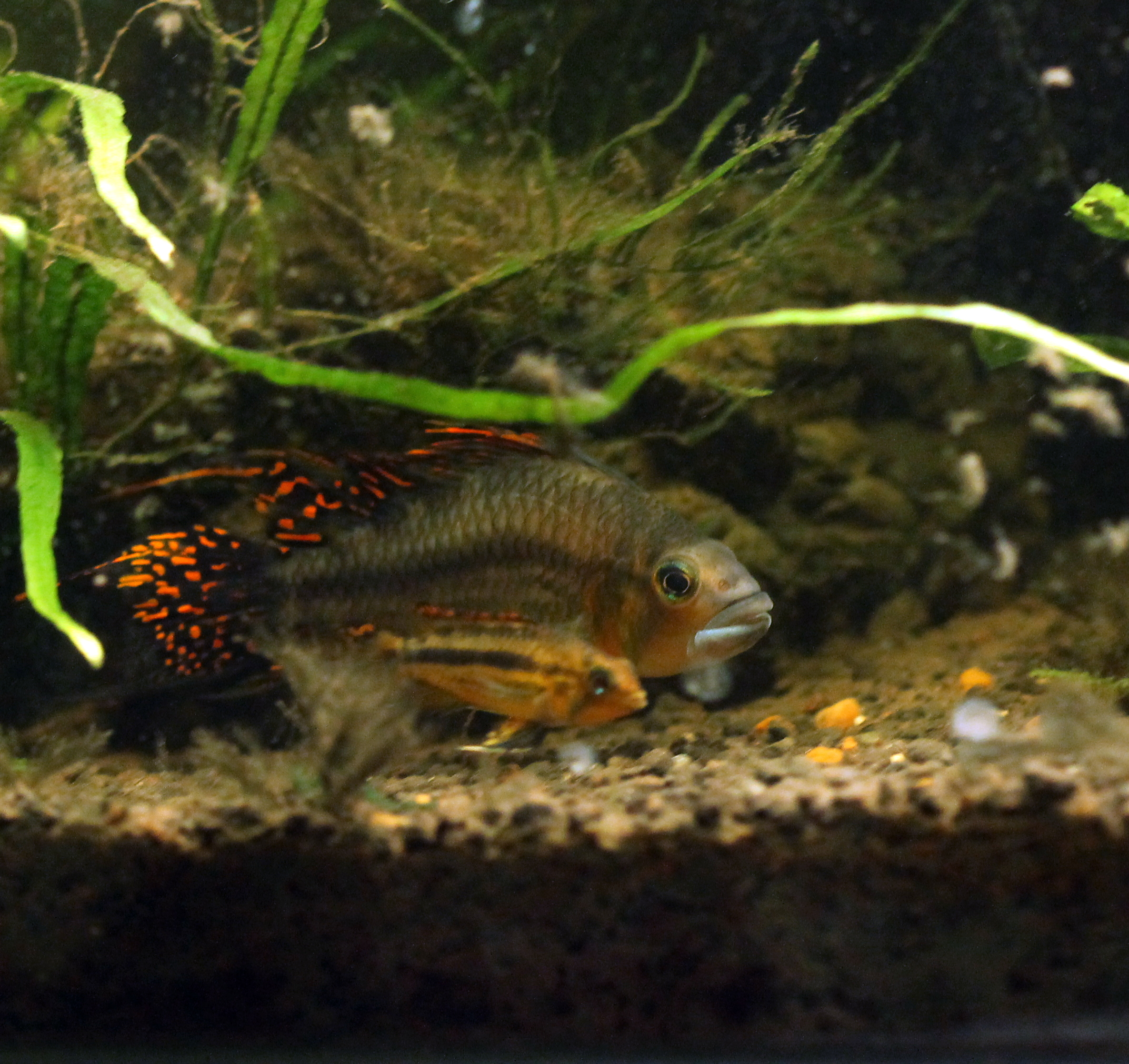 Apistogramma Cacatuoides 'double red' full-grown Male and Female side-by-side.